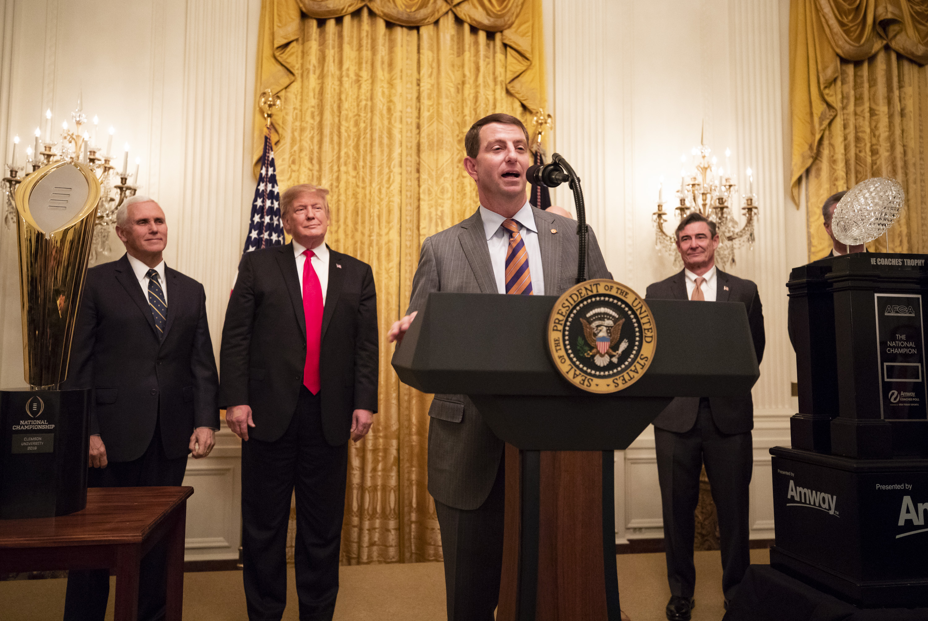 President Donald J. Trump and Vice President Mike Pence look on as Clemson head coach Dabo Swinney delivers remarks during a celebration for the 2018 NCAA College Football National Champions the Clemson Tigers Monday, January 14, 2019, in the East Room. (Official White House Photo by Joyce N. Boghosian)